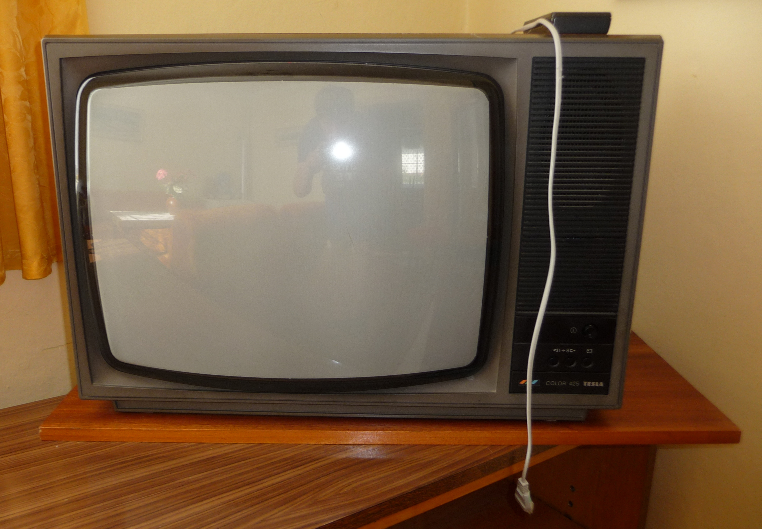 Television set Tesla Color 425